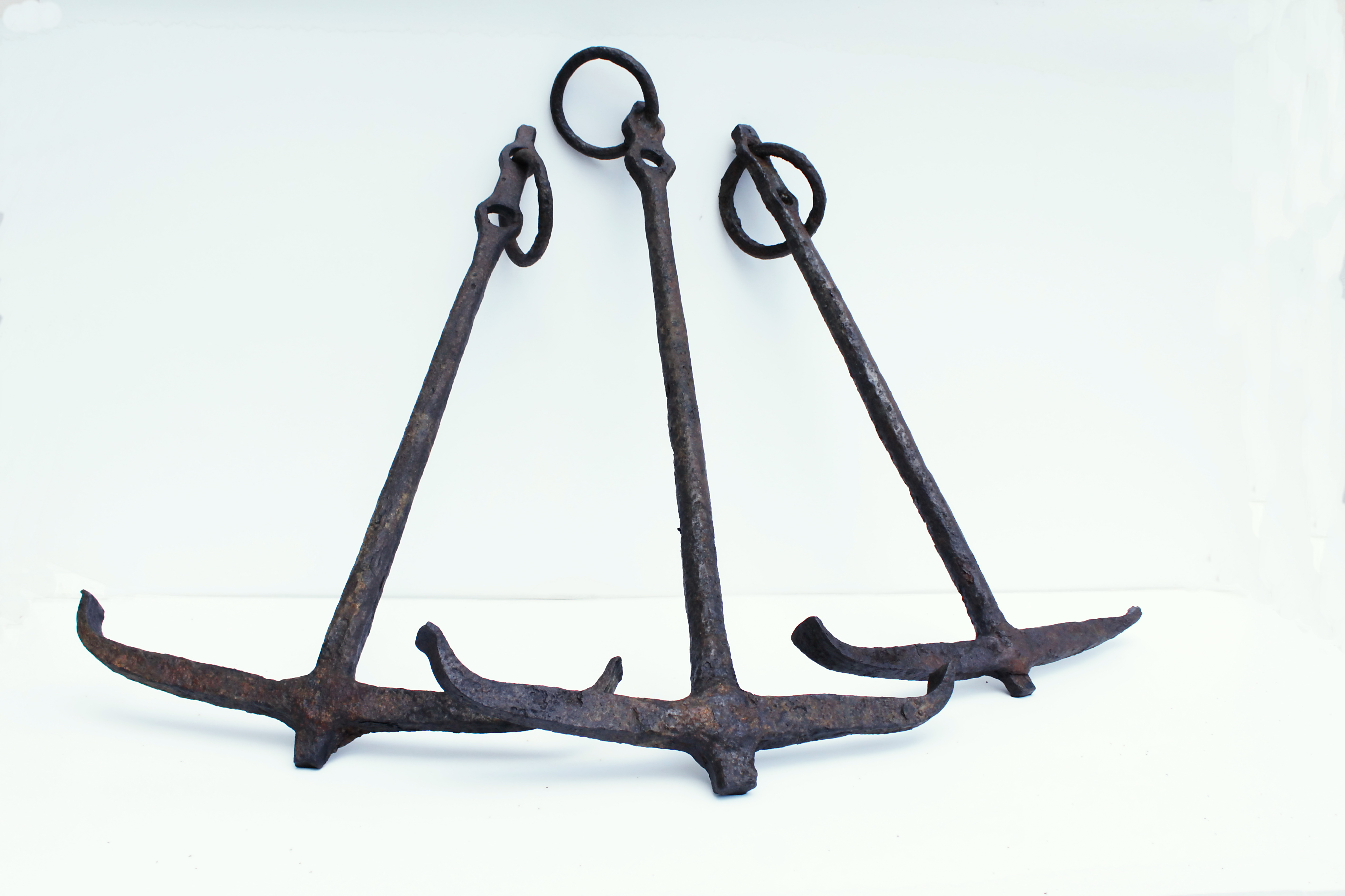 Anchors from Early Byzantine period, now located in Museum of Science and Technology in Belgrade.